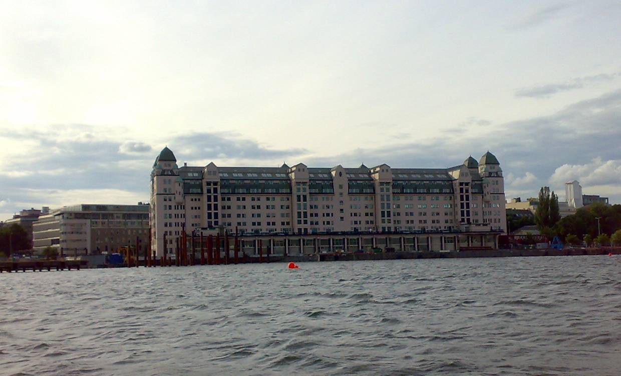 Oslo havnelager, Oslo, Norway